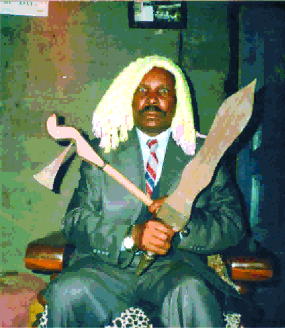 Chief Mwene Kandombwe Machalo is the 5th Chief in the Kandombwe Dynasty